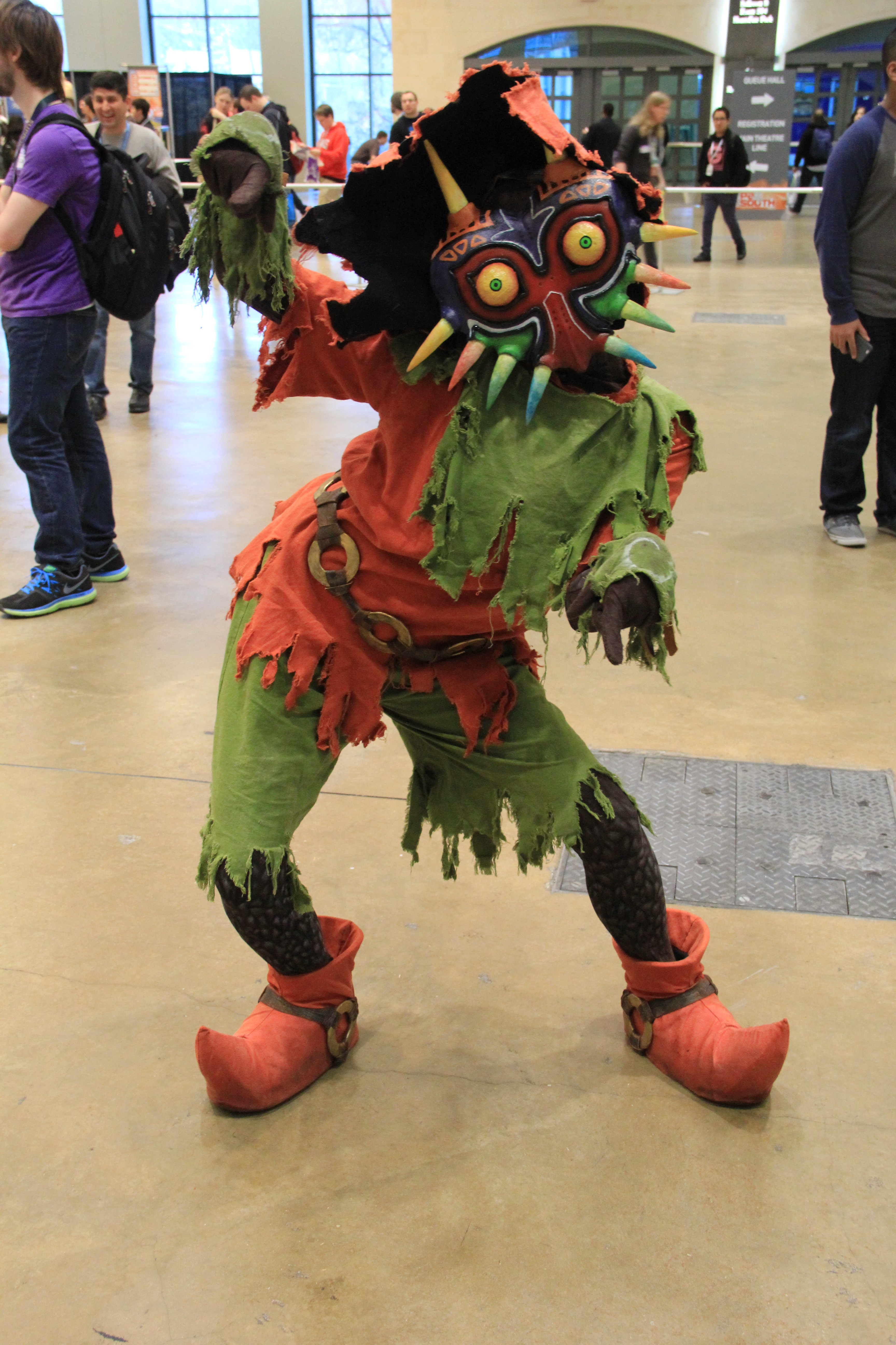 IMG_3468 Taken on day 1 of PAX South 2015.